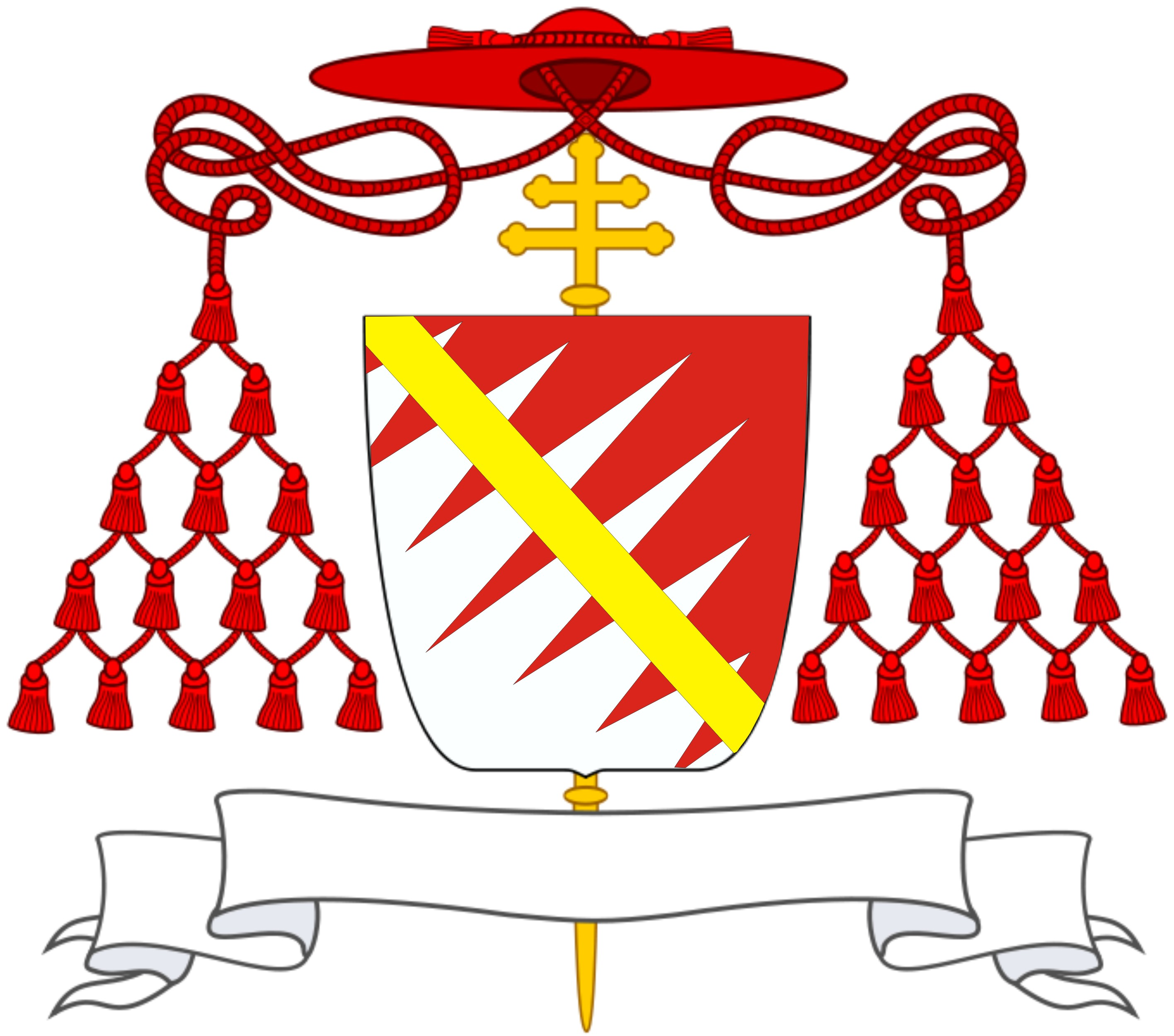 Coat of arms of cardinal Giacomo Franzoni.